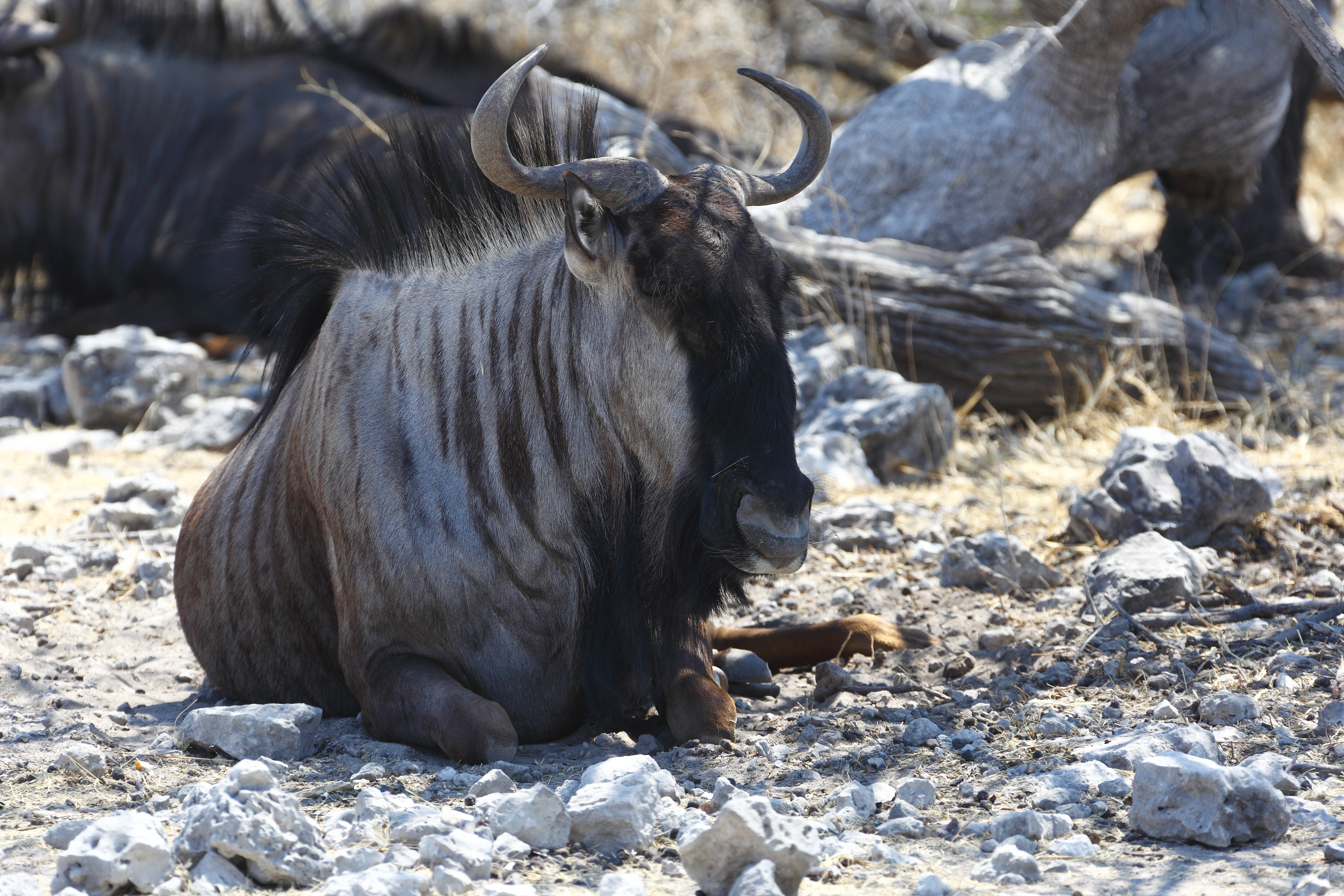 Blue Wildebeest (Connochaetes taurinus) in the wildlife at the Klein Namutoni Fontain, near fort Namutoni, Etosha National Park, Namibia.